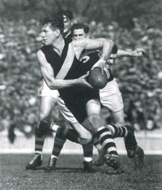 Photograph of Jack Dyer running with the ball.